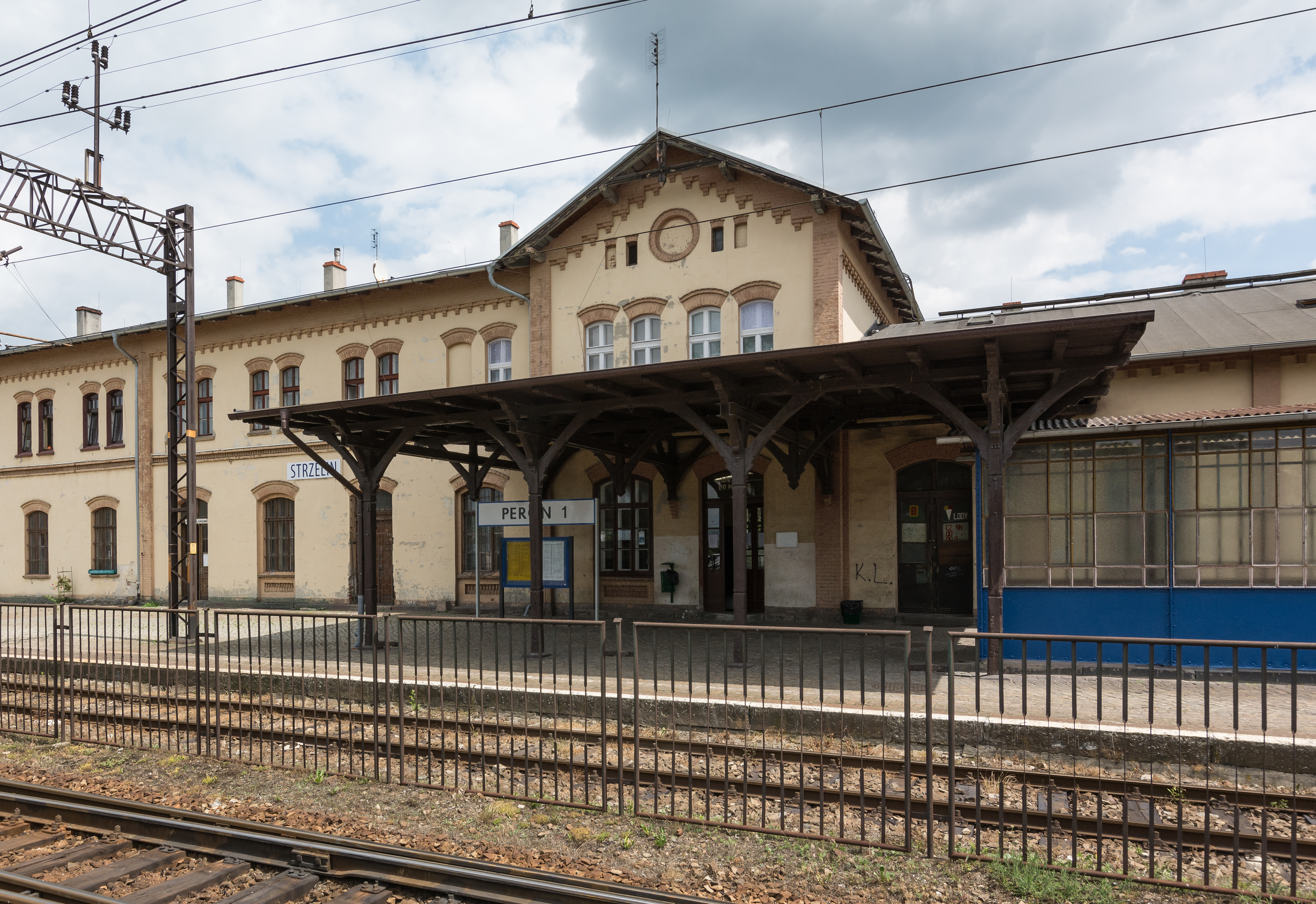 Train station in Strzelin, first platform shed